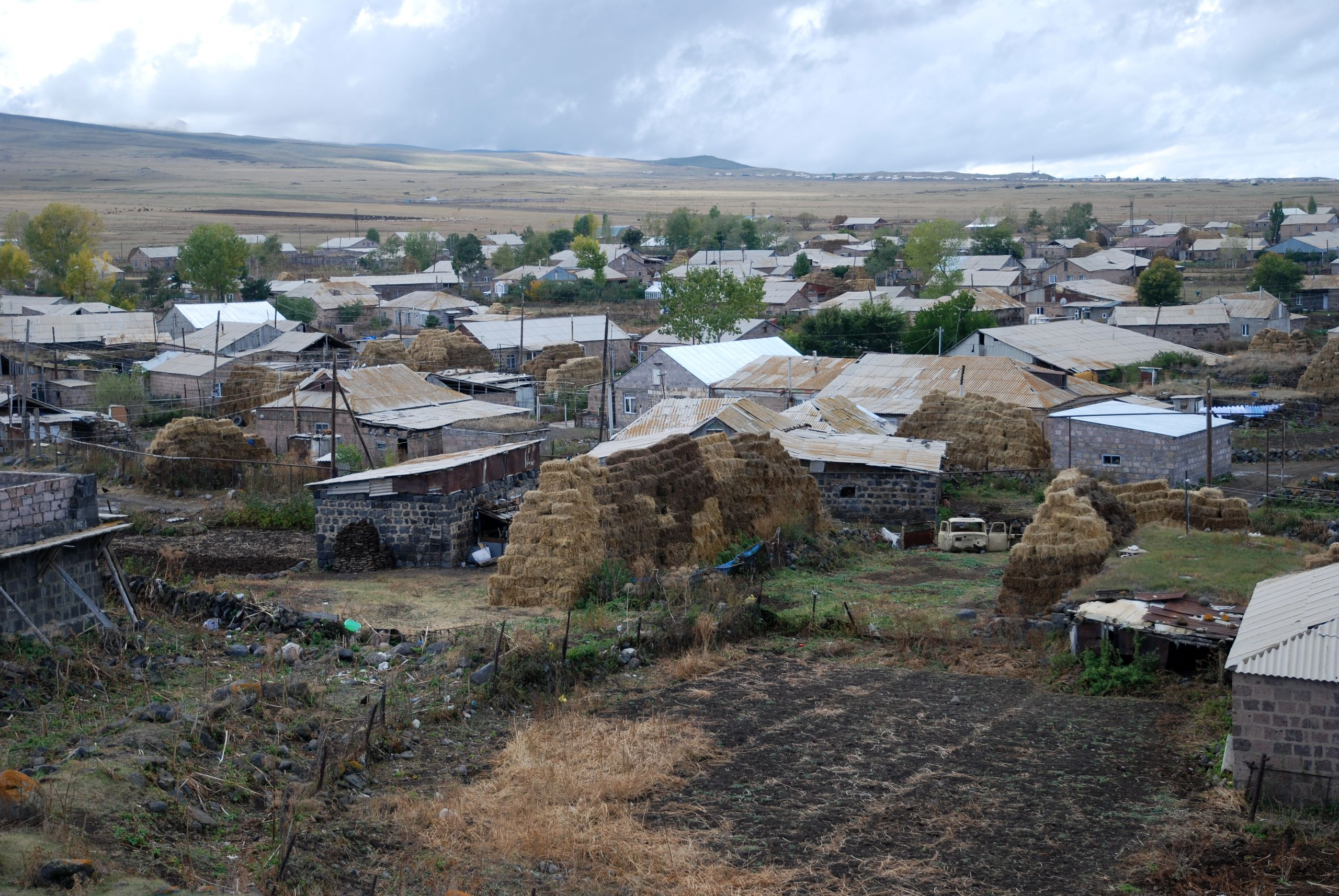 Tsaghkahovit, south part of village